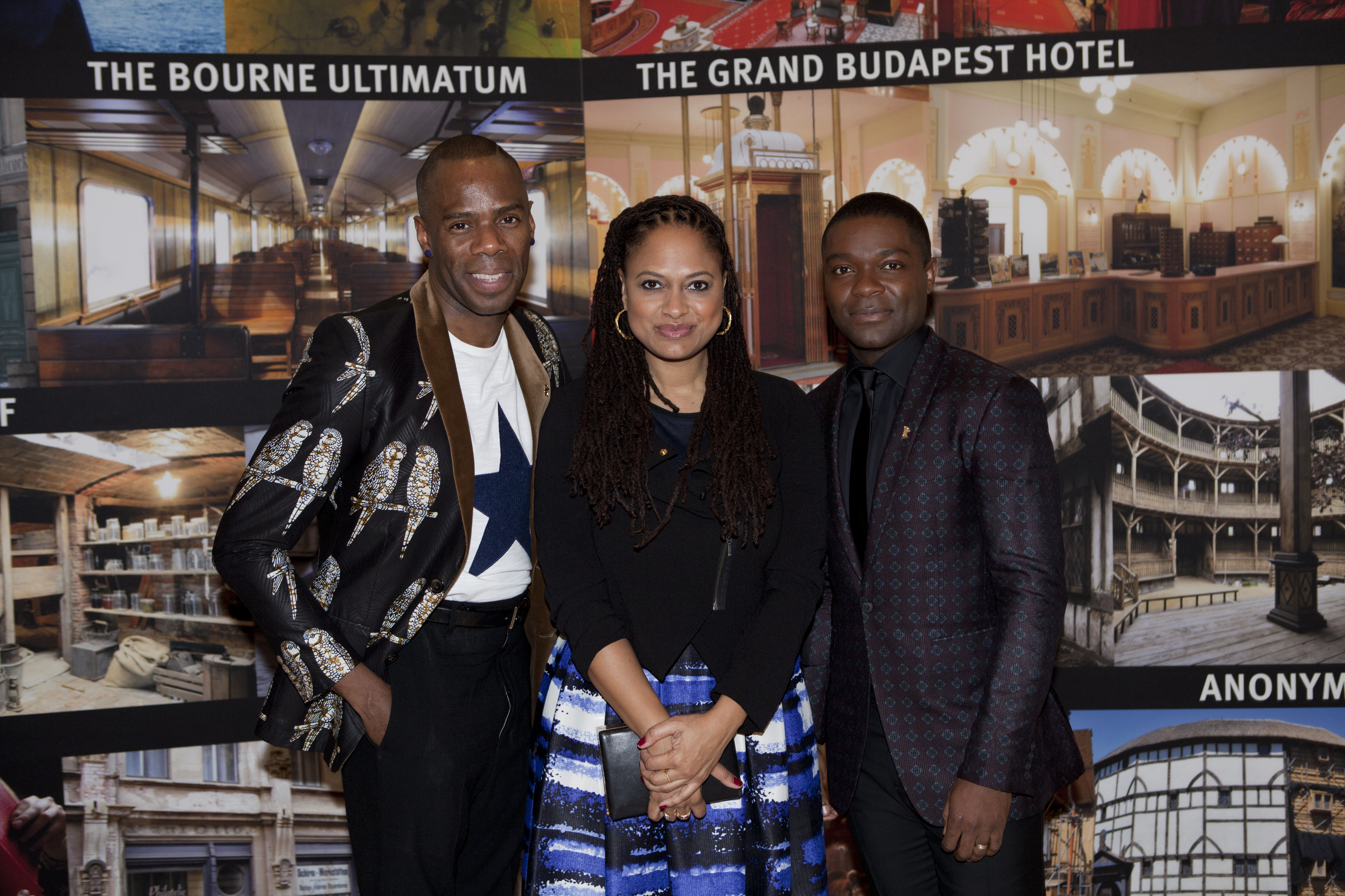 Ava DuVernay, David Oyelowo and Colman Domingo from the film Selma